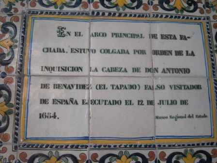 Pottery sign of Antonio Benavidez at la Compañía Church in Puebla